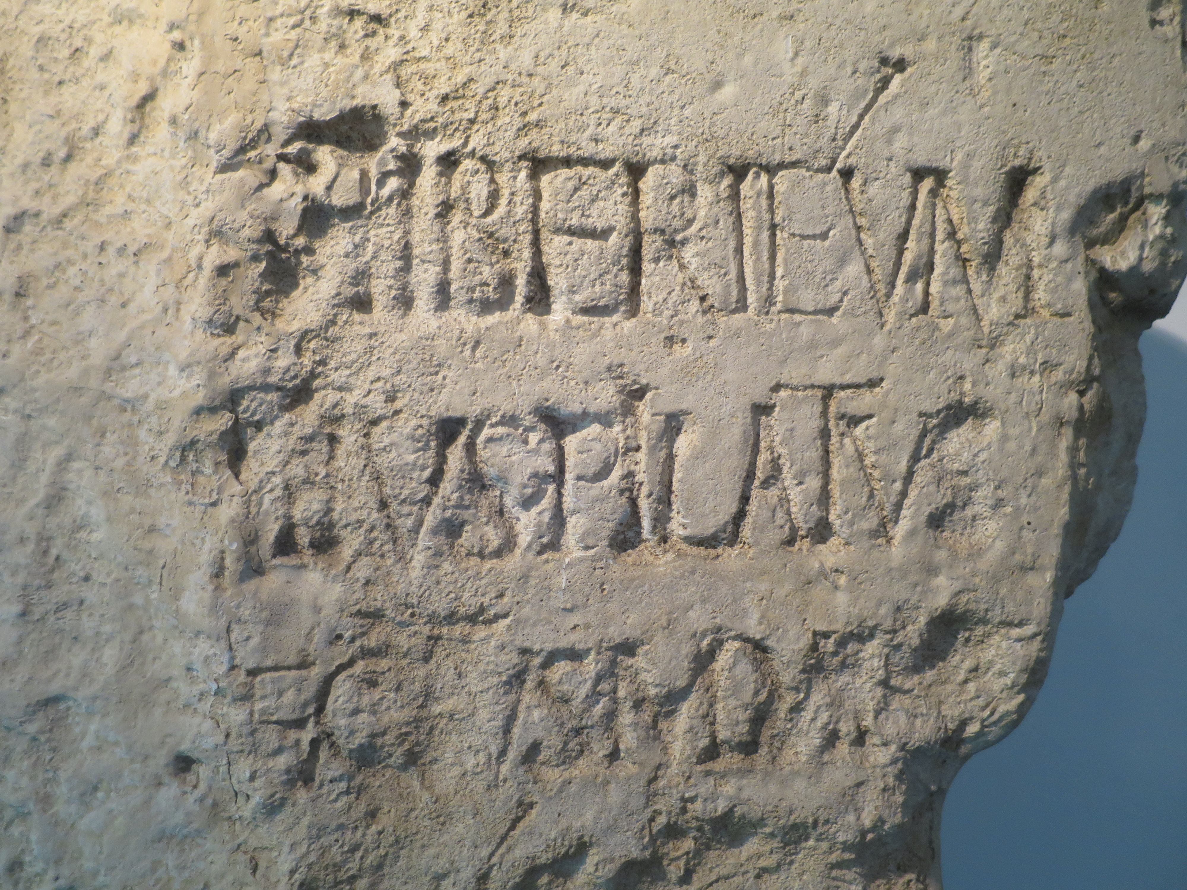 Copy of the Pilate Stone from Caesarea Maritima in the Civico museo archeologico di Milano (Detail)